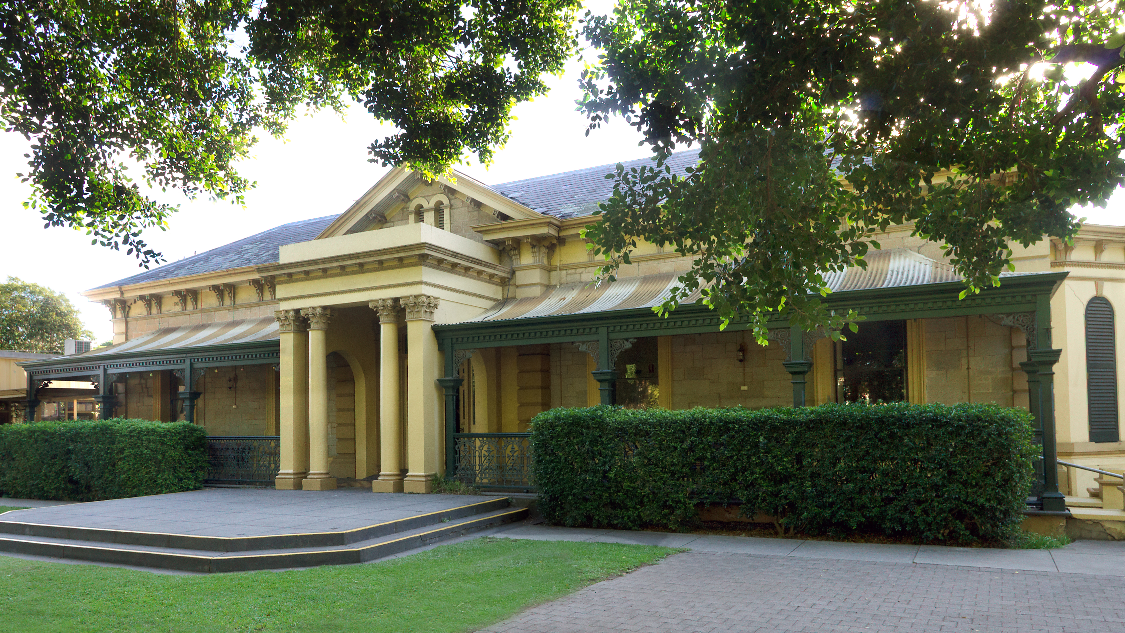 Built by Dr Charles Everard in 1838, this is the house of early South Australian pioneer and member of parliament.